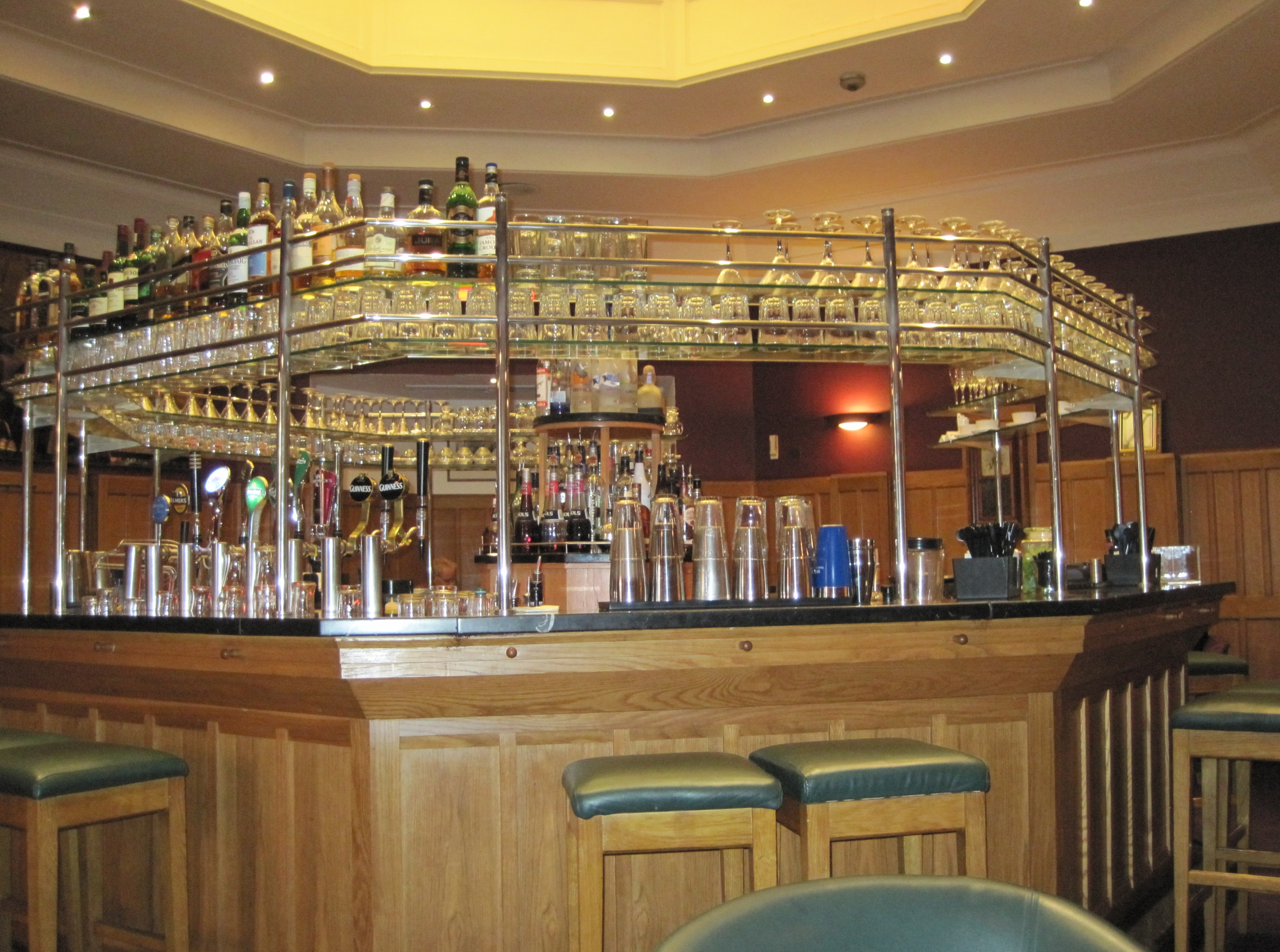 Octagon bar inside the Clarence Hotel, Dublin, Ireland.